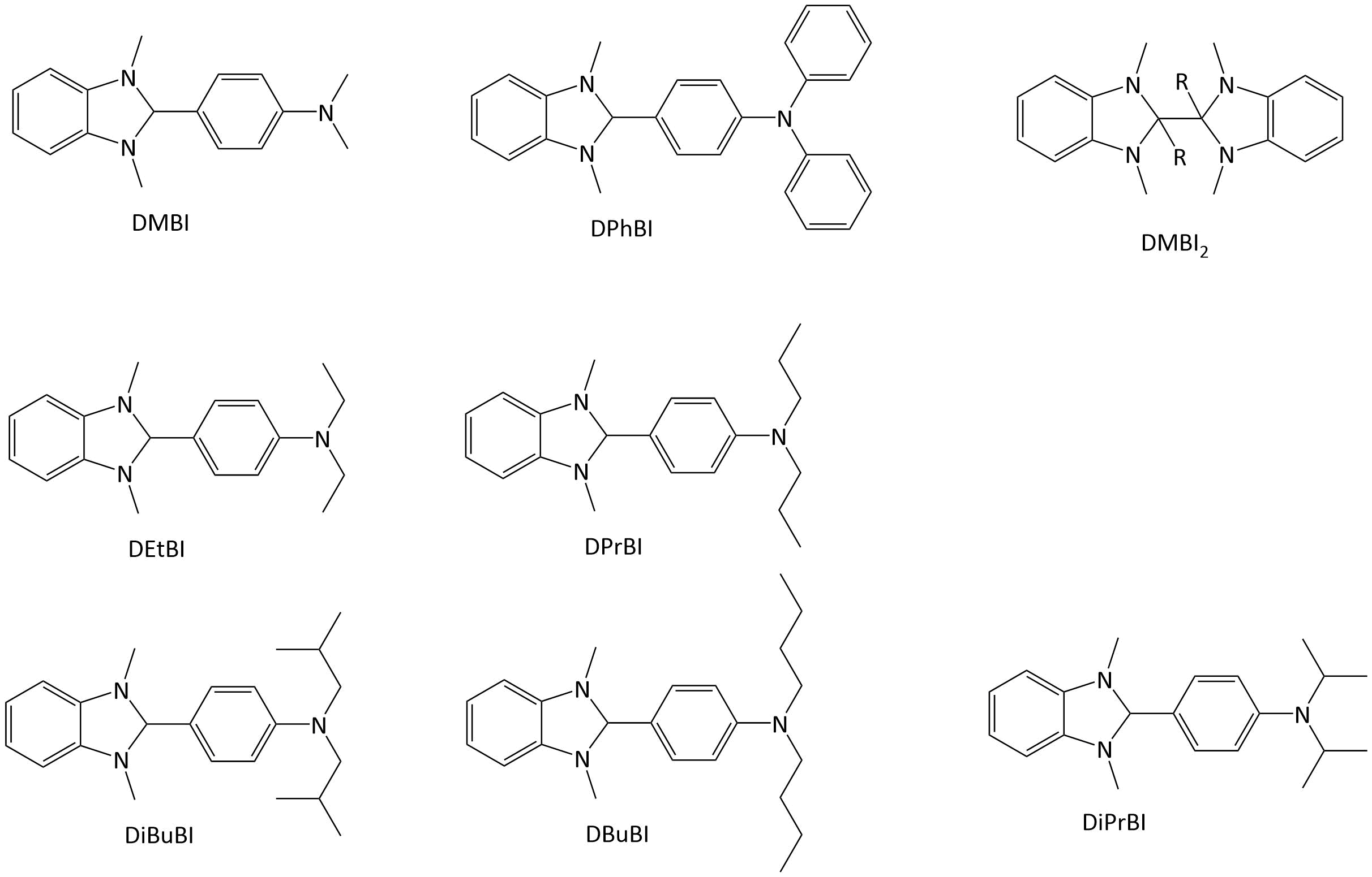 DMBI based dopants